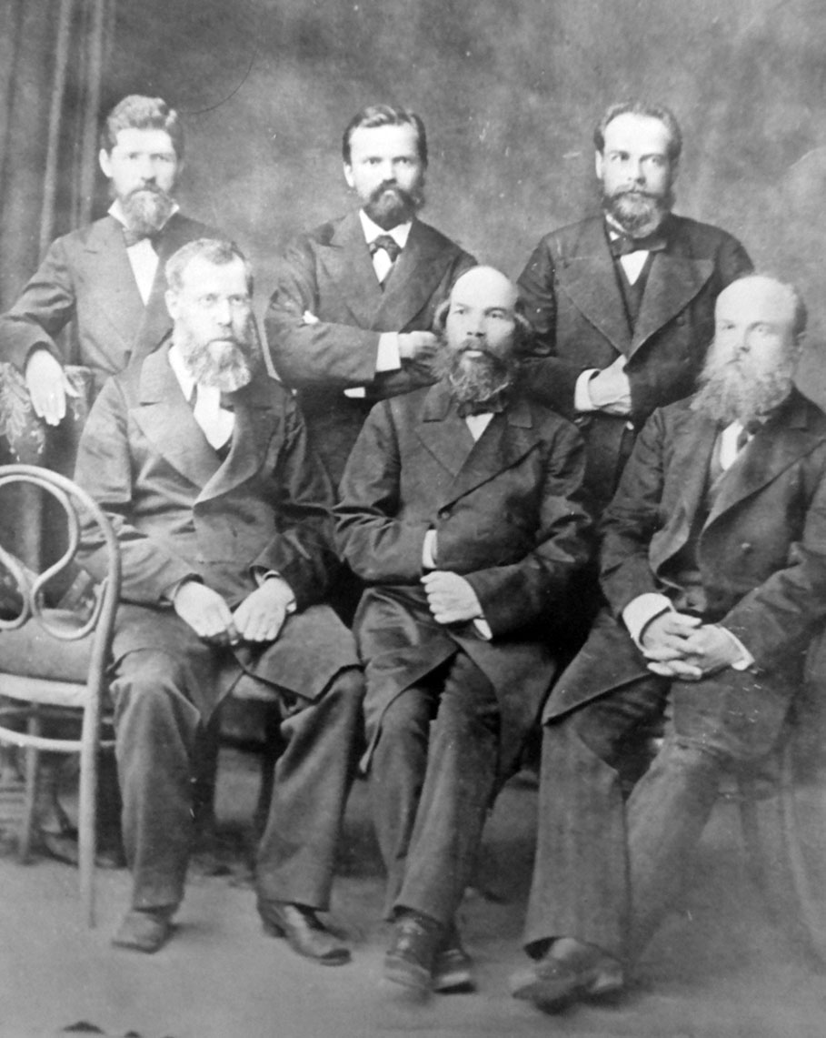 Ilya Ulyanov, father of Vladimir Lenin, with fellow educators of the Simbirsk Governorate.